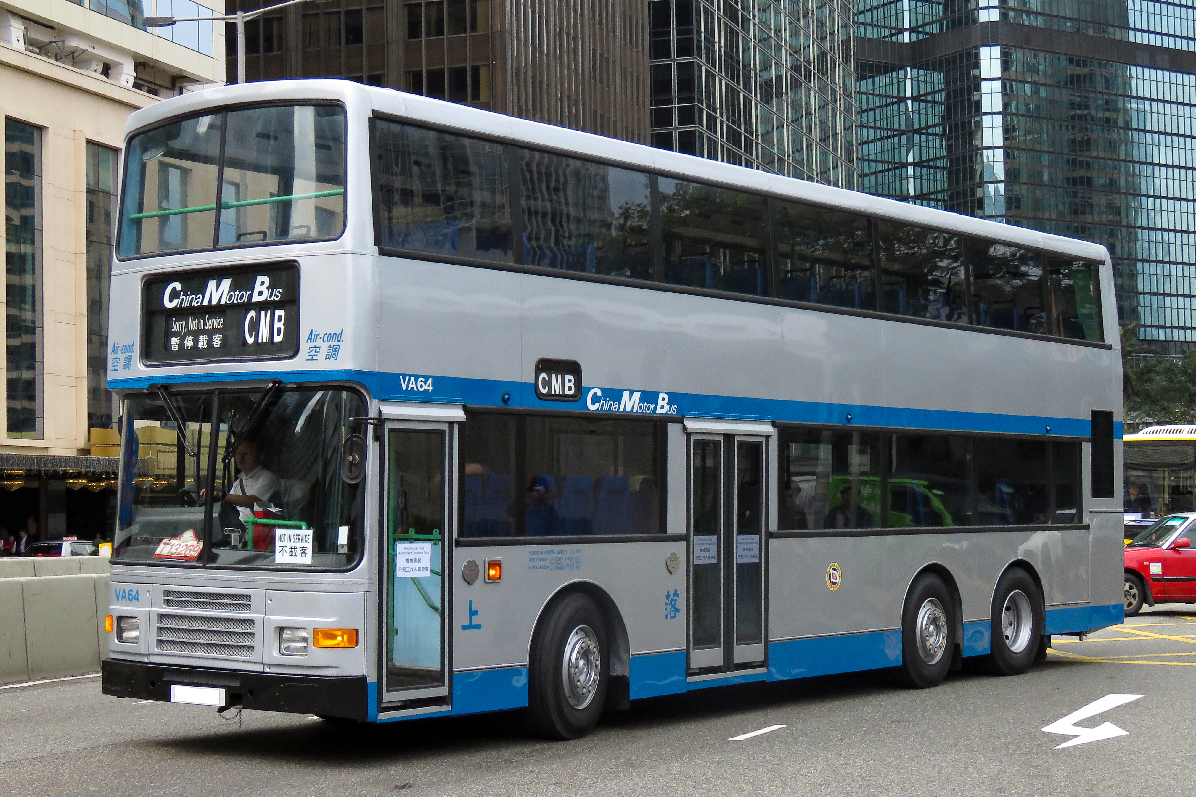 The last new bus of China Motor Bus with its last livery - silver.